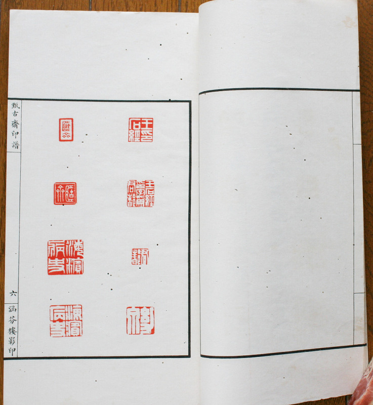 Seals by Shijing Wang Edited by himself.